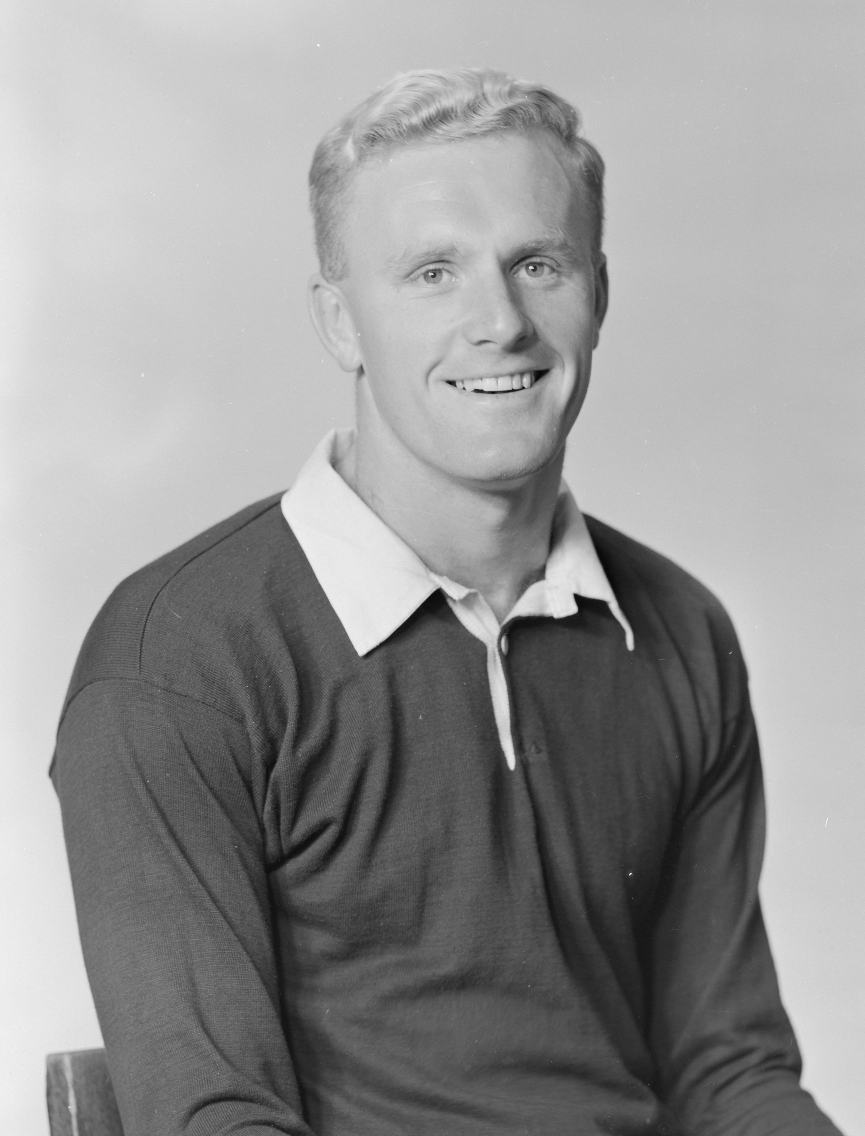 Photograph of rugby player Stan Meads, taken by Crown Studio Ltd of Wellington.